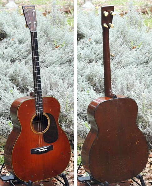 1932 Martin 018 Tenor